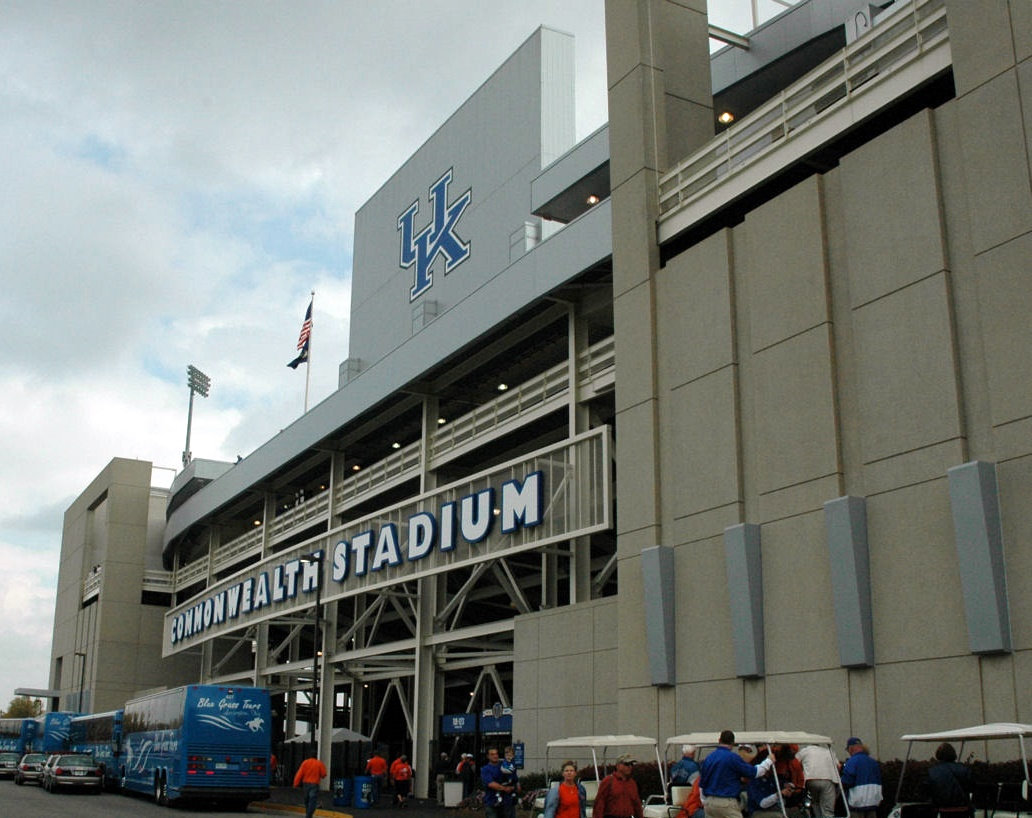 Exterior of the University of Kentucky's Commonwealth Stadium in Lexington, Kentucky